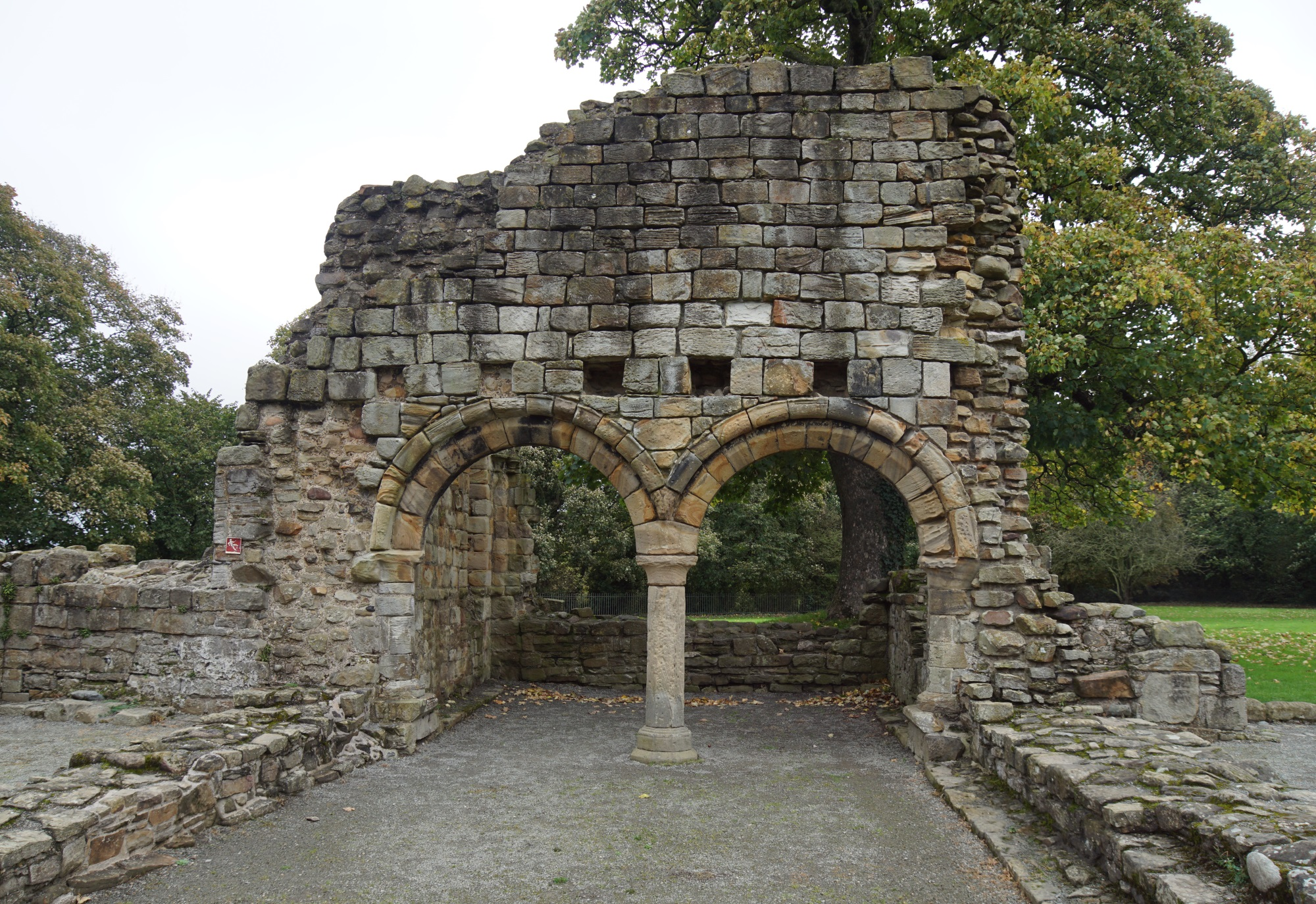 Basingwerk Abbey, Wales. Chapter house seen from the west.